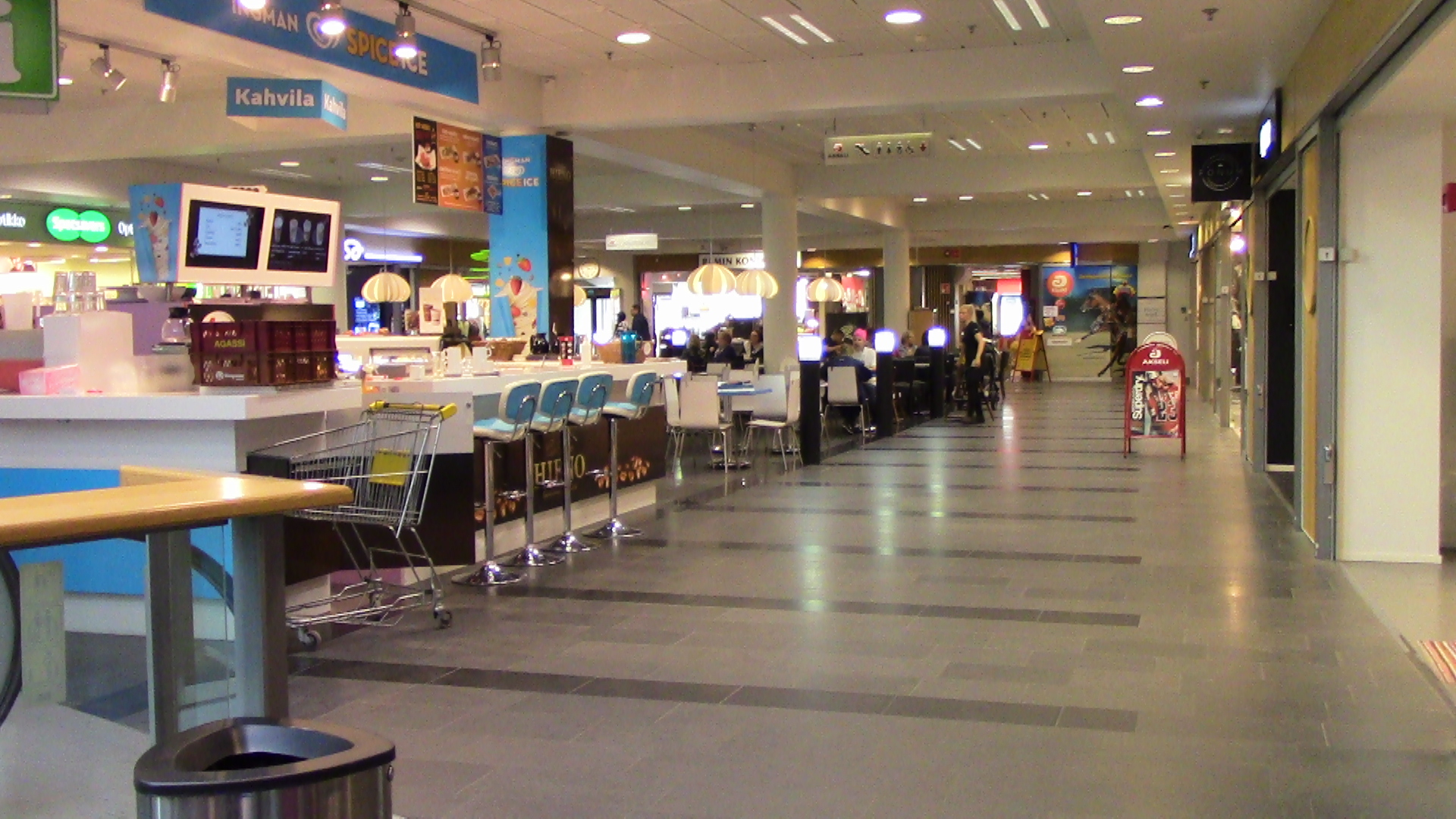 The interiors of Akseli shopping center in Mikkeli.